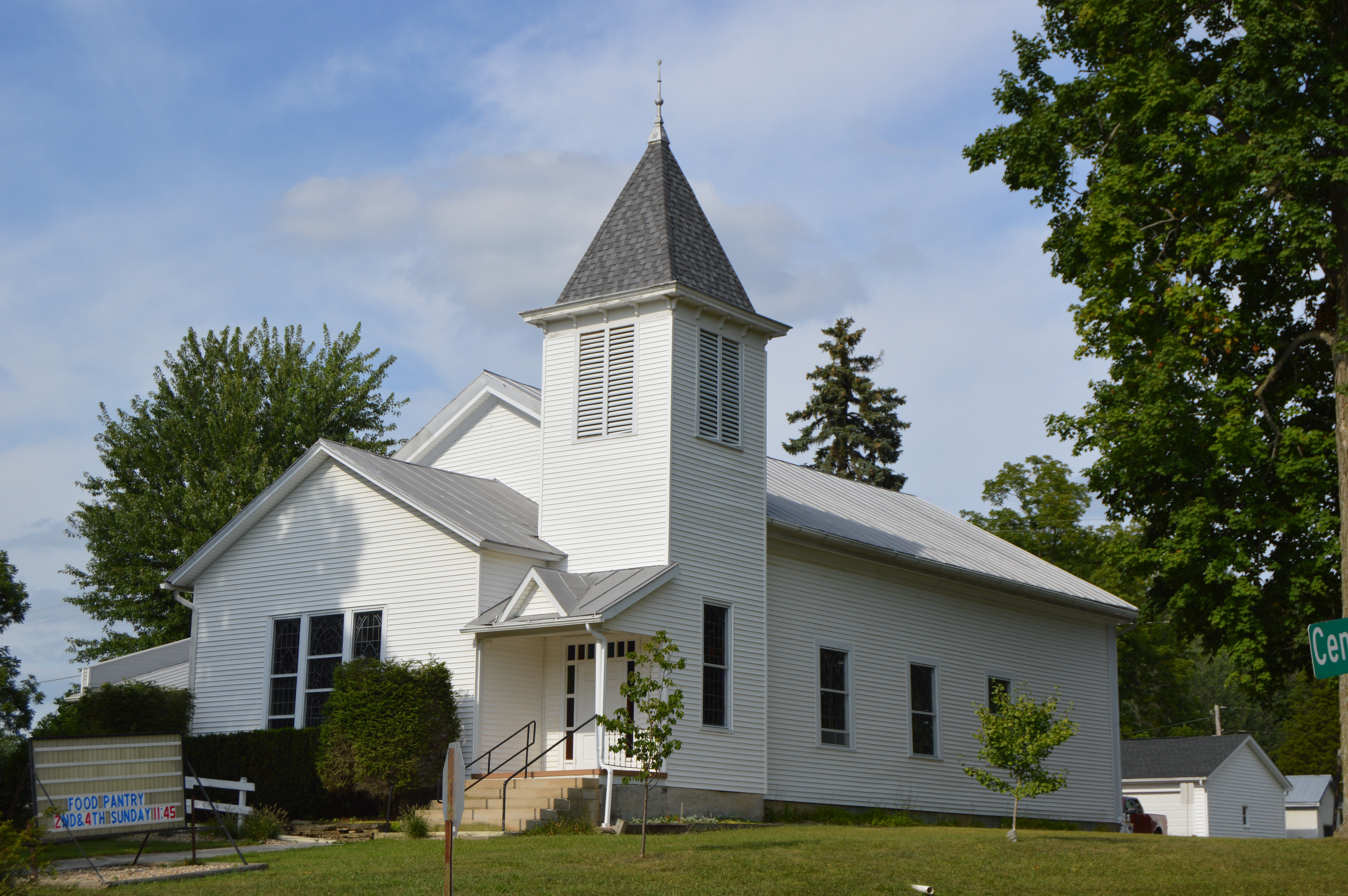 Front and southern side of the Iberia Presbyterian Church, located at 8607 County Road 30 in Iberia, Ohio, United States.